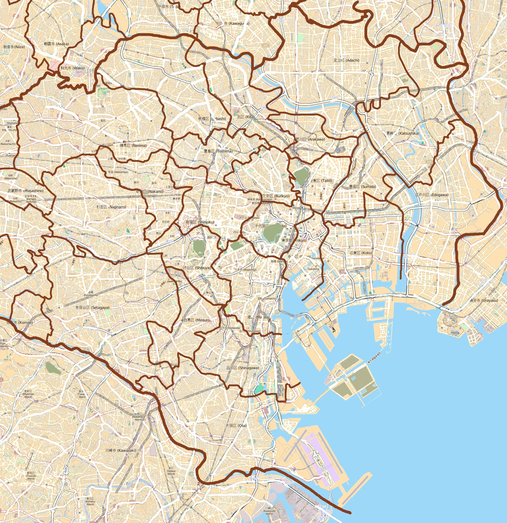 Map of the 23 special wards of Tokyo, Japan